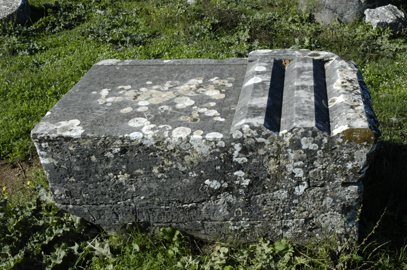 A metope (L) and triglyph (R) cut from one block from Stratos.J. Matthew Harrington, personal digital image